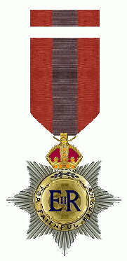 Imperial Service Order Elizabeth II